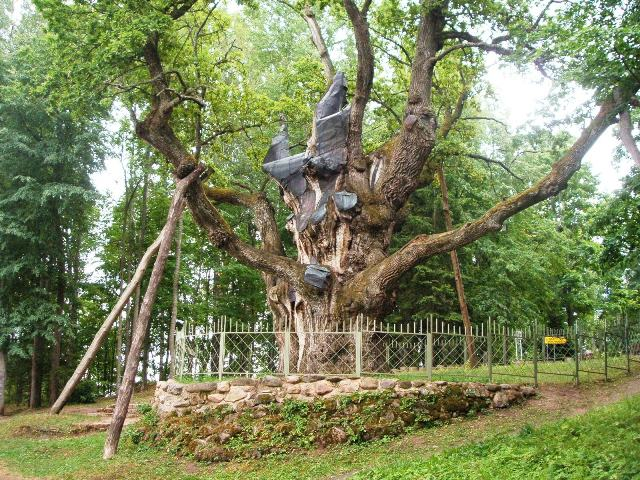 One of the oldest oak in Europe - Stemužė, Lithuania